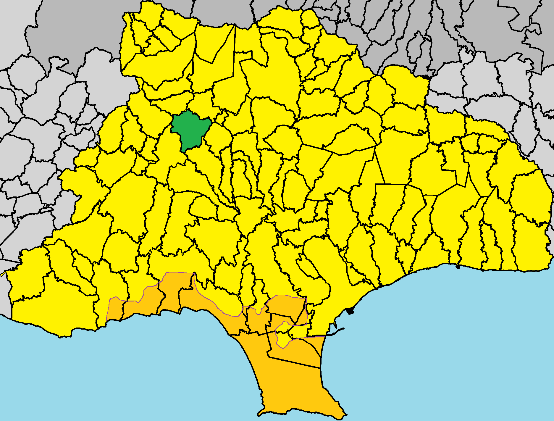 Koilani in Limassol District.